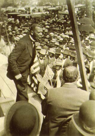 Booker T. Washington giving speech in New Orleans, 1915